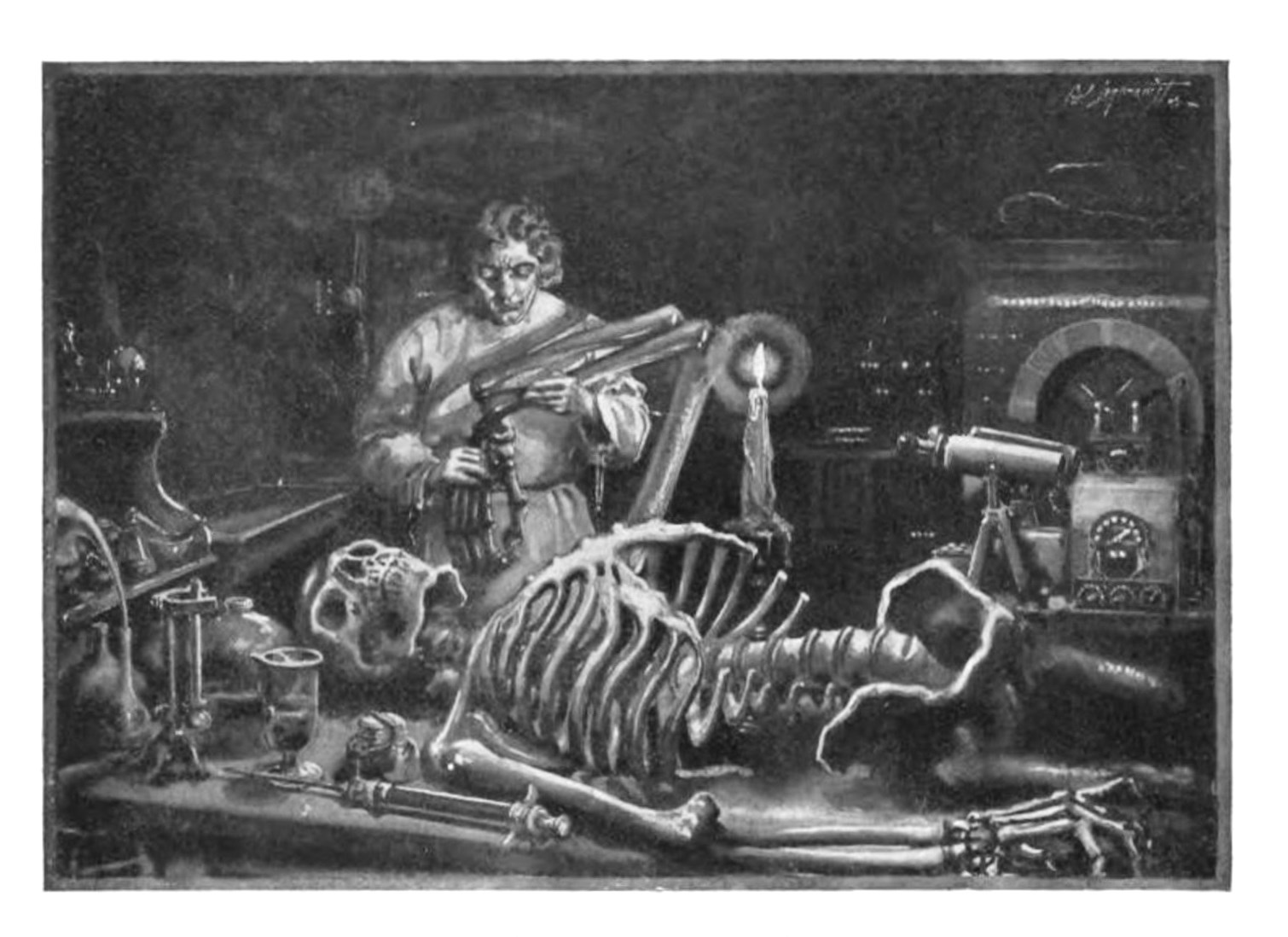 plate found on page 7 of Frankenstein, captioned "FRANKENSTEIN AT WORK IN HIS LABORATORY."